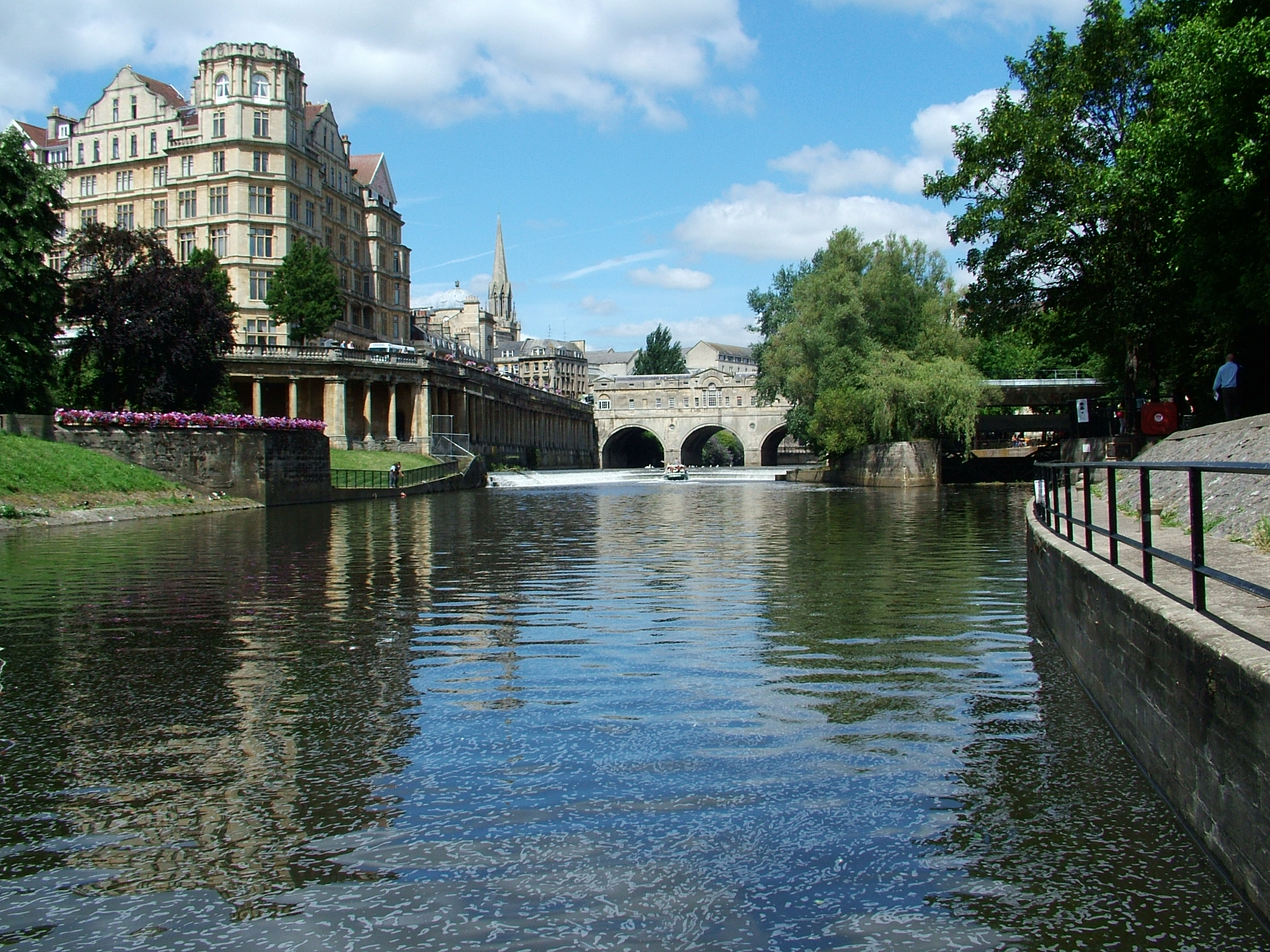 Pulteney Bridge in Bath